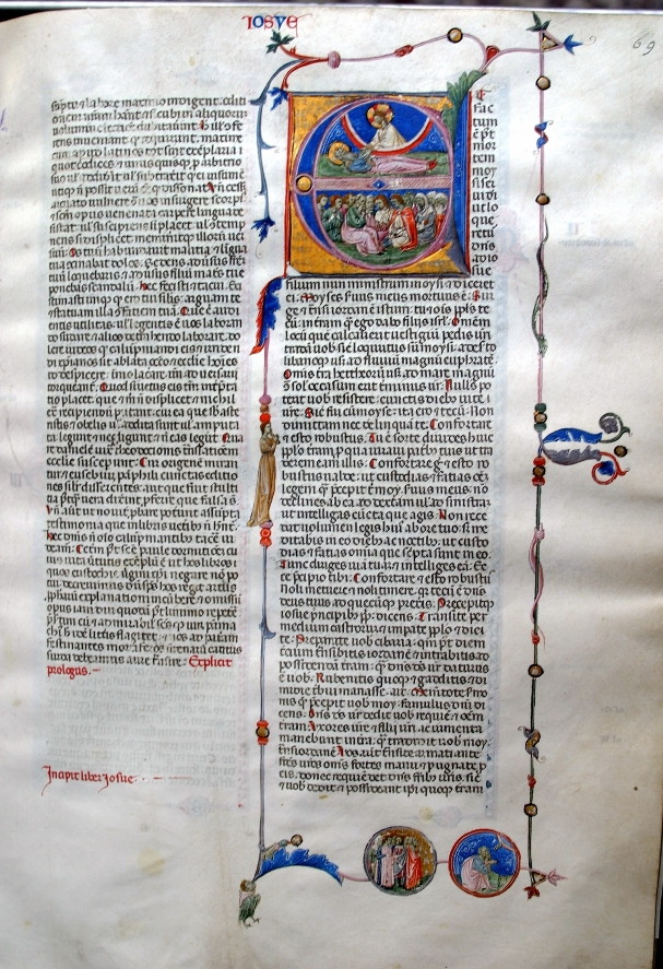 Biblioteche Riunite “Civica e A. Ursino Recupero” - Bibbia Miniata latina attribuita a Pietro Cavallini, sec. XIII – XIV